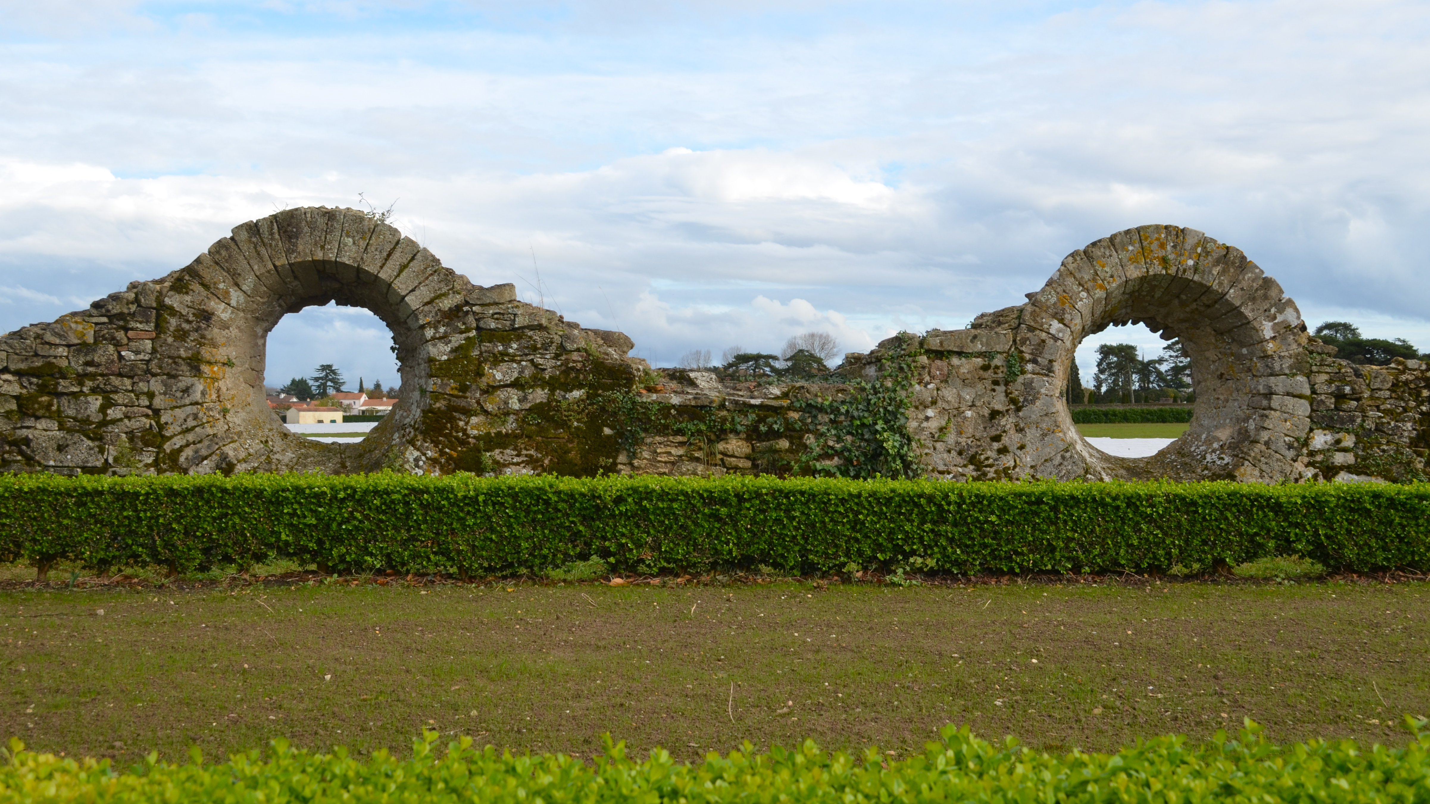 Wall of Notre-Dame-de-la-Chaume abbey - Machecoul, France